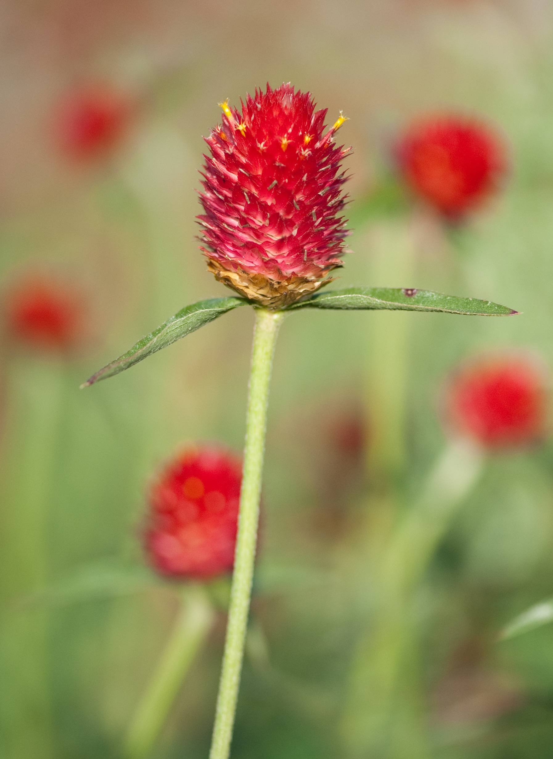 Not sure of the variety. This is either Qis Carmine or Strawberry Fields. Flowers can be dried, although most people replace the stem with florist wire when drying. They do fade with time and sunlight when dried.